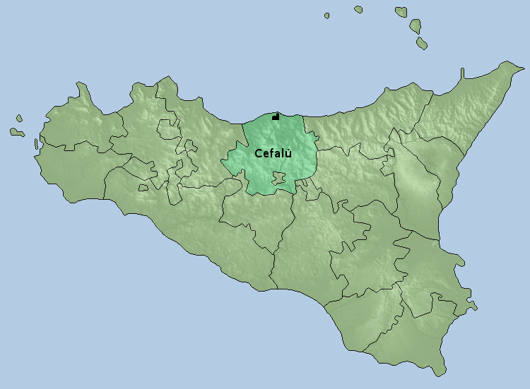 Map of the diocese of Cefalù (^^: Cathedral of a metropolitan diocese, –^: Cathedral of a suffragan diocese, ^–: Co-cathedral)